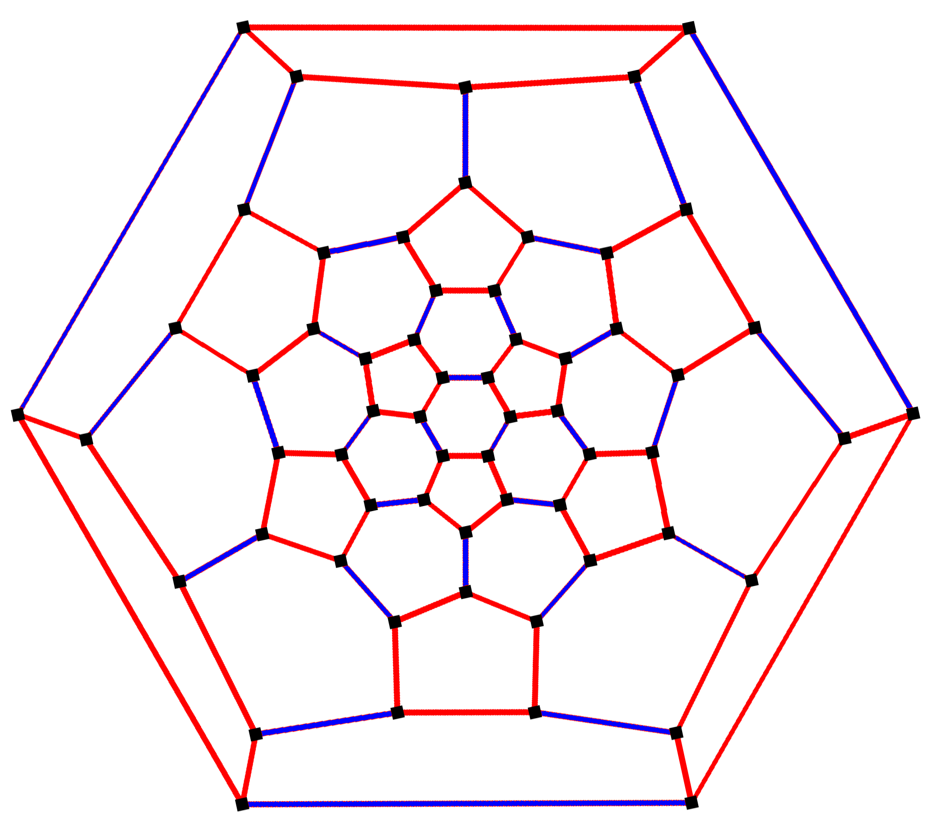 Schlegel diagram